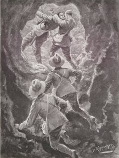 Captain Barber surprising a Turkish sentry in a hostile Listening Tunnel. An opening having been driven into a hostile listening tunnel, Captain Charles Stanley Barber, of the 3rd Field Company Australian Engineers, crawled through with a few men on hands and knees. Captain Barber then surprised the Turkish sentry, and by barricading a large portion of the tunnel, considerably strengthened the advanced post. He was awarded the M.C. for conspicuous gallantry.